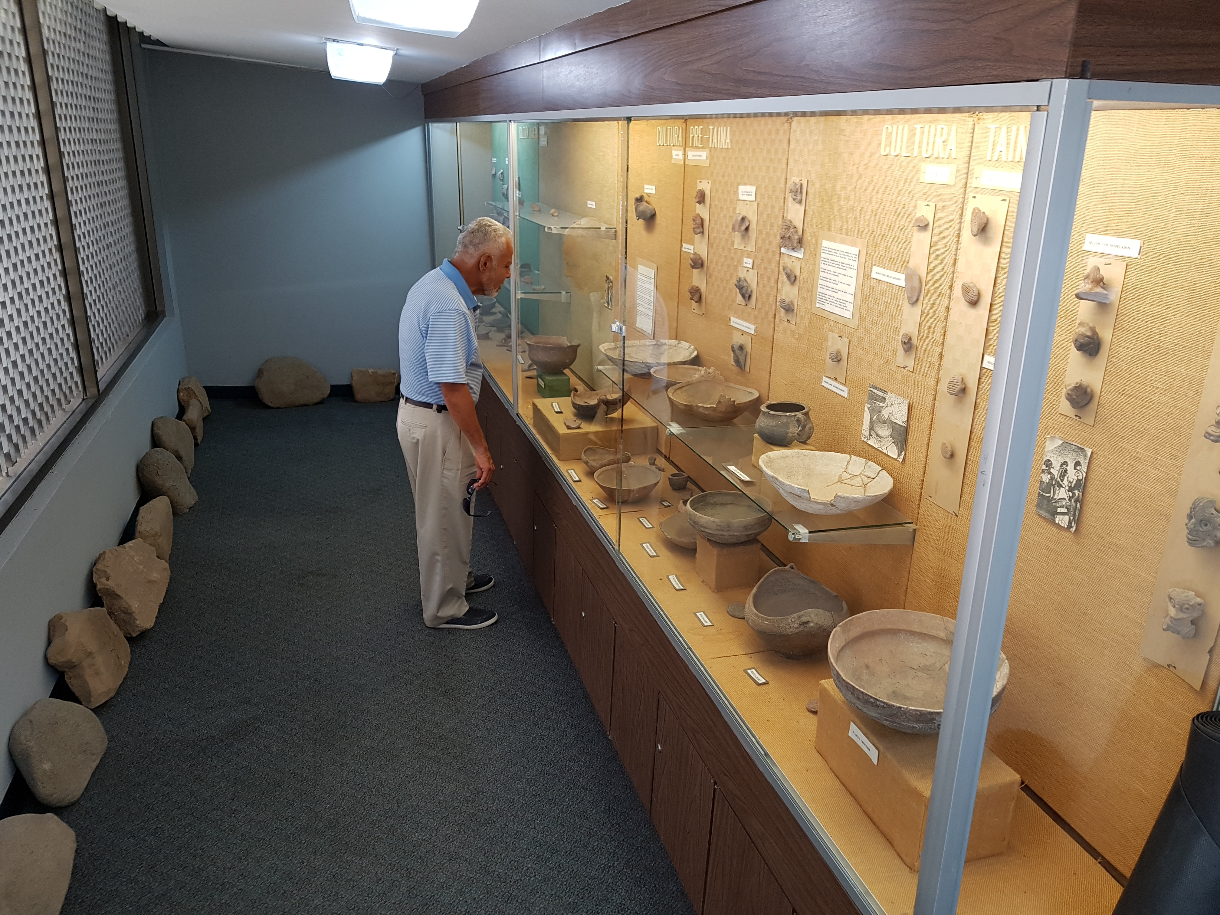 Un cliente aprecia artefactos del Museo de Arqueología, Biblioteca Encarnación Valdés, PUCPR, Bo. Canas Urbano, Ponce, PR (20191217 130637)